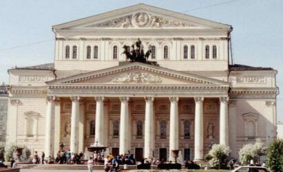 Moscow, Russia: Bolshoi Theatre.